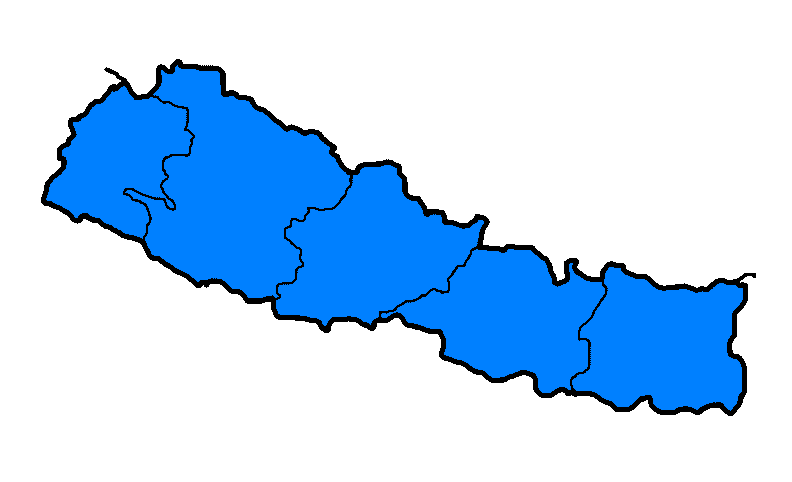 Created by me 2007-08-20. Uploaded by me 2007-09-10. See image name for description. Every effort has been made to reduce error, and I apologise for any errors/omissions. Some areas with only minor damage have been omitted. Citations for the affected areas can be found here.